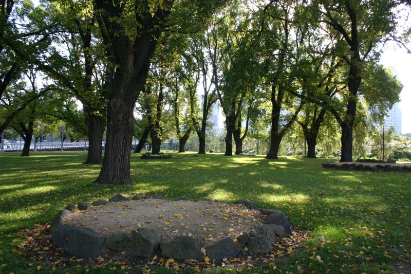 A speaker's mound in Speakers' Corner at Birrarung Marr, Melbourne. Photo by Takver taken 2005 and released under GNU GFDL